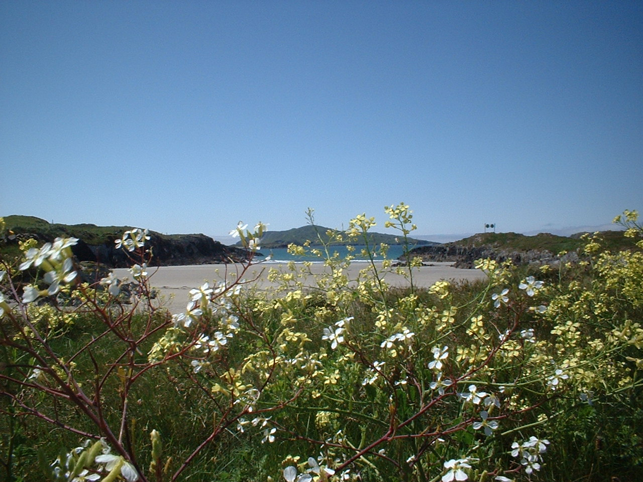 Sherkin Island Beach, The Cow Strand, by Masha Dunaeva